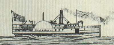 Steamship Philo Parsons which was captured in 1864 by Confederates on Lake Erie and participated in the burning of the steamer Island Queen.